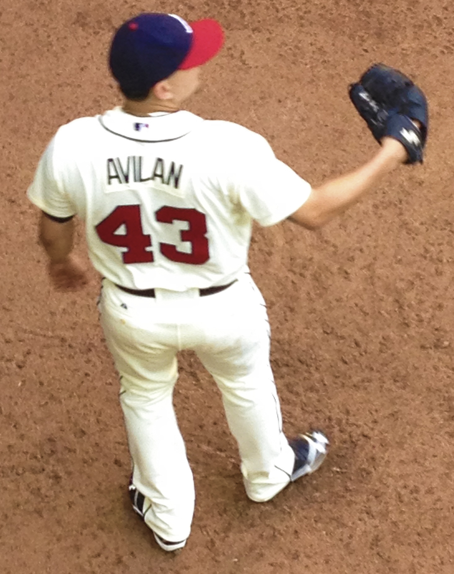 Luis Avilán